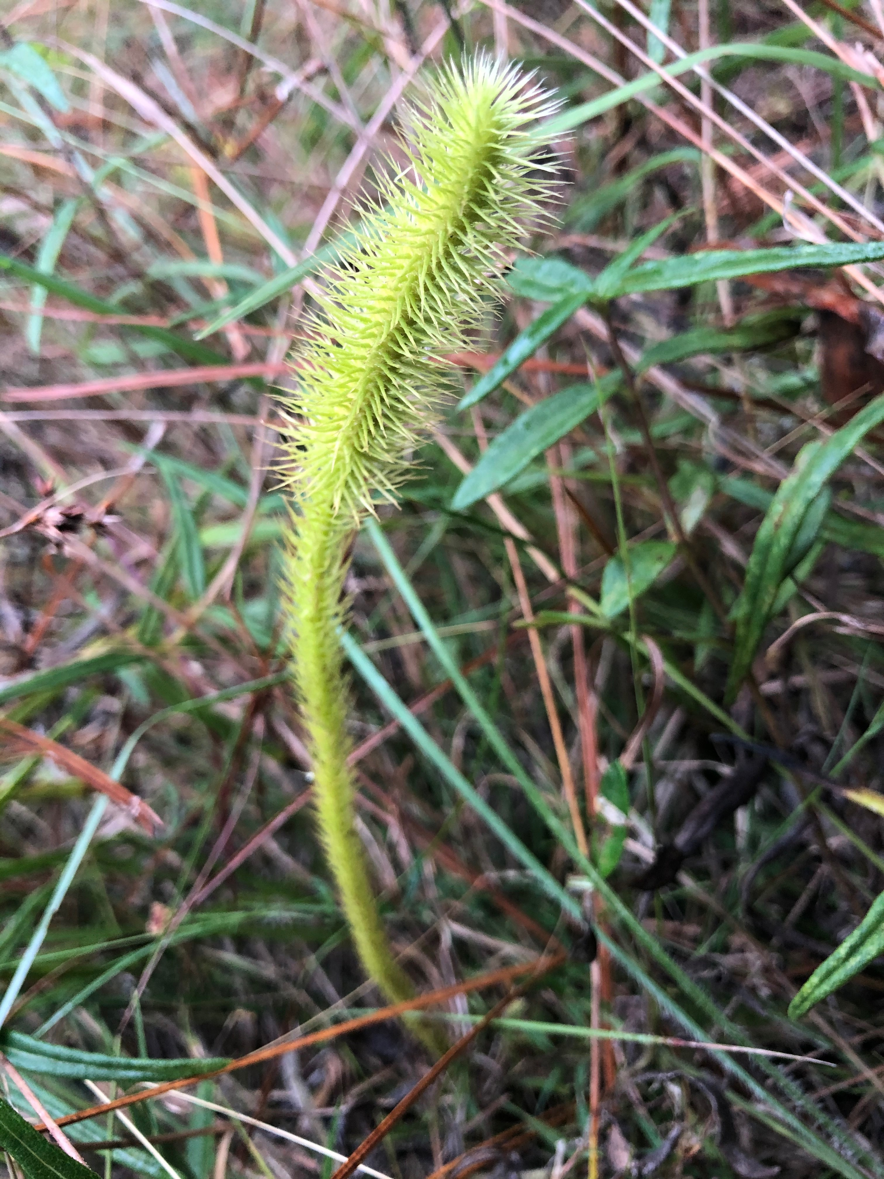 This is a photo of Lycopodiella alopecuroides taken in Hattiesburg, MS.